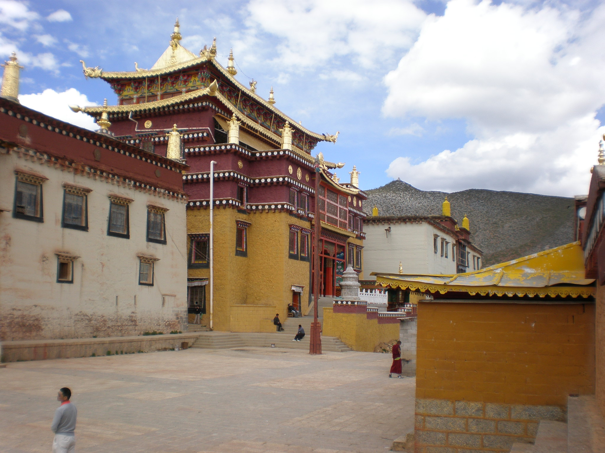 A section of the main courtyard of Songzanlin Monastery near Shangri-La, Yunnan, PRC.